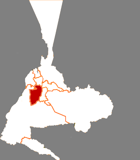 Location of Saibah District in Urumqi City, China